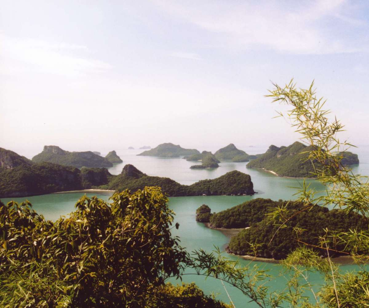 Ang Thong Marine National Park, Thailand. View from the viewpoint on Ko Wua Ta Lap (เกาะวัวตาหลับ, also named Ko Ang Thong เกาะอ่างทอง) Photo taken by User:Ahoerstemeier on July 4 2002.